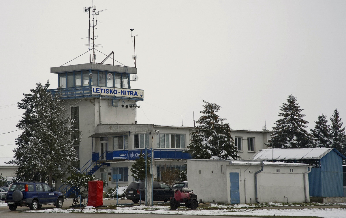 Airfield Nitra